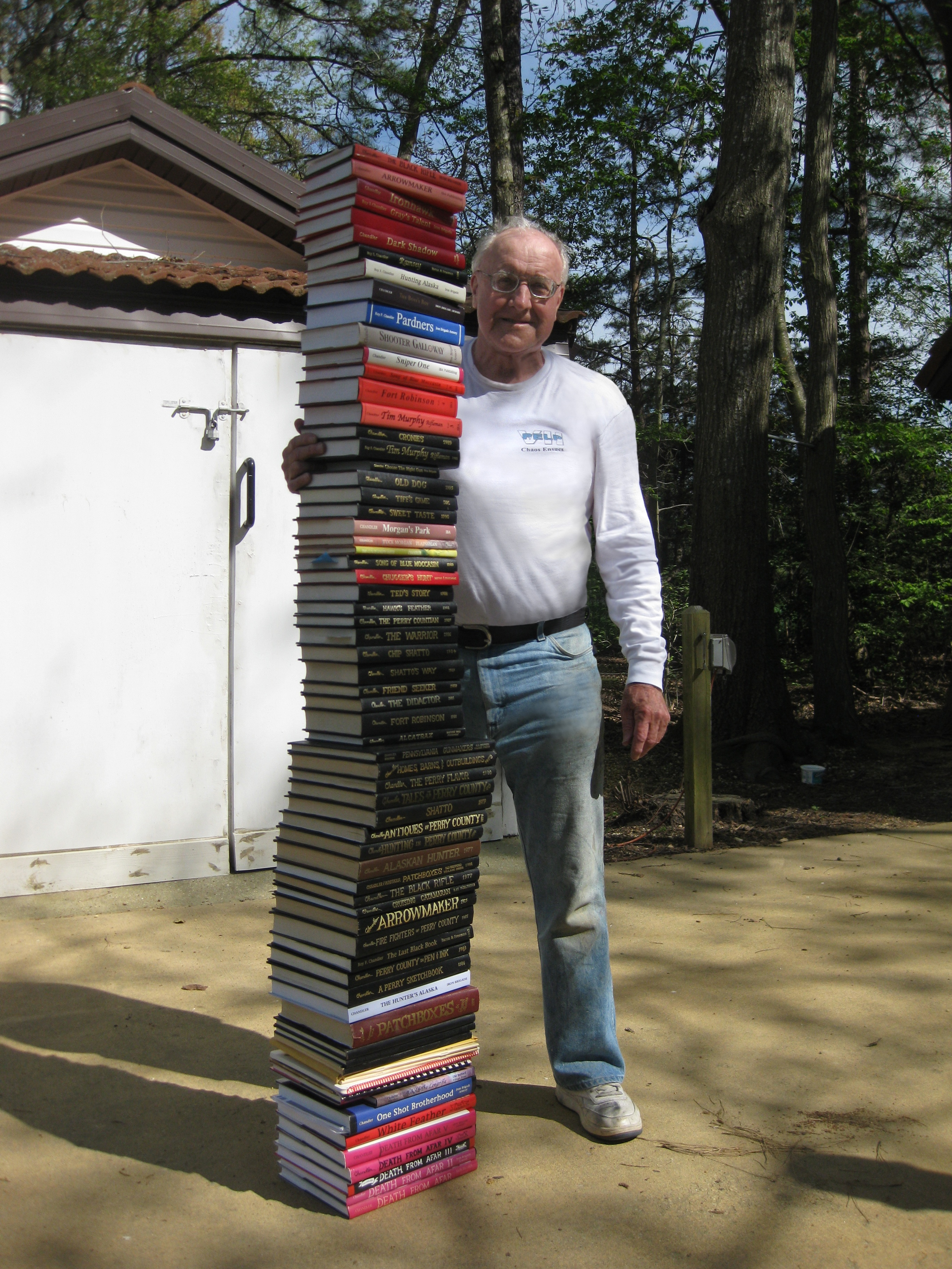 Photograph of author Roy F. Chandler standing next to a stack of the books he has written.